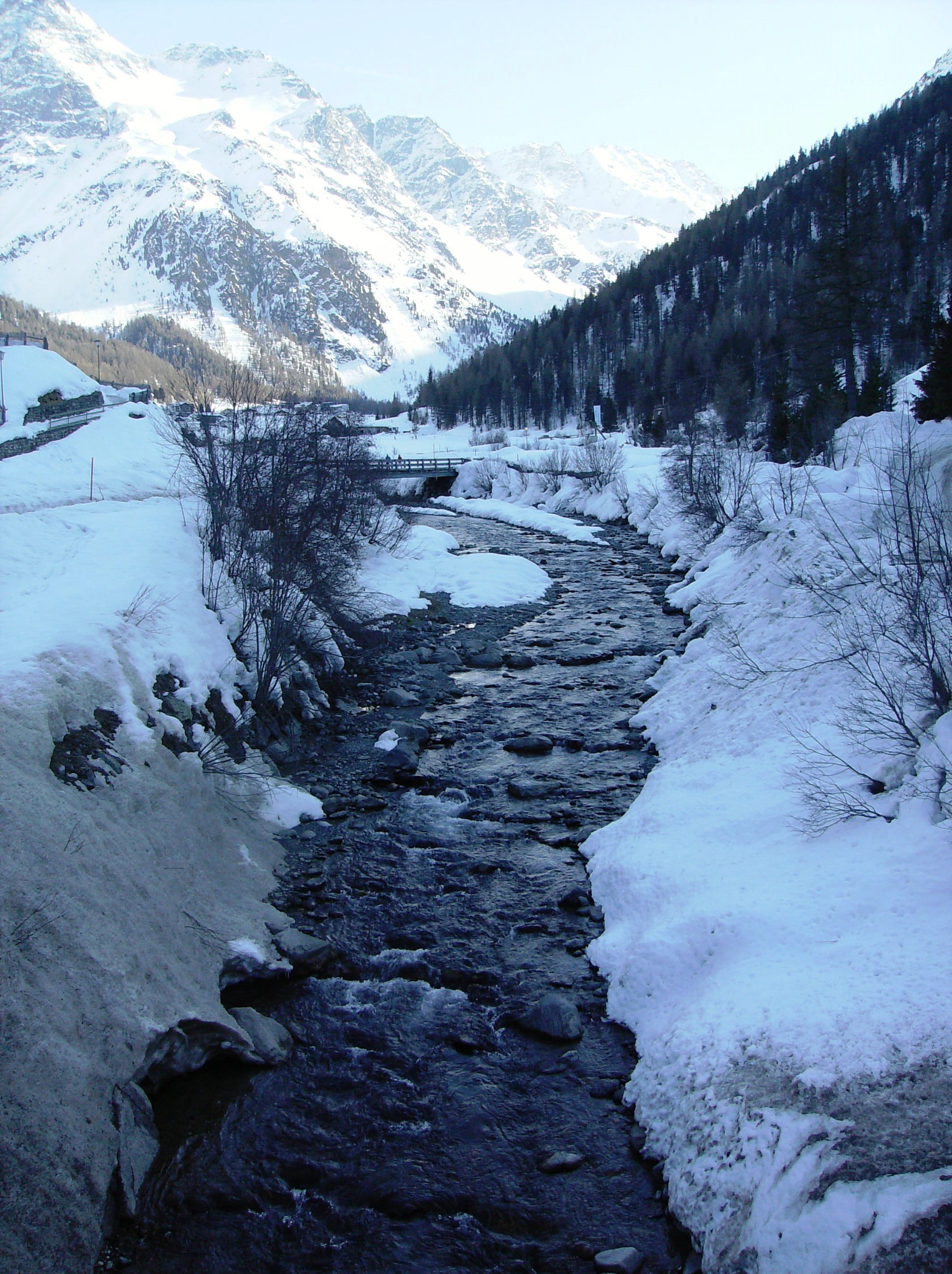 Small river in SuldenValley- Sudtyrol- Italy